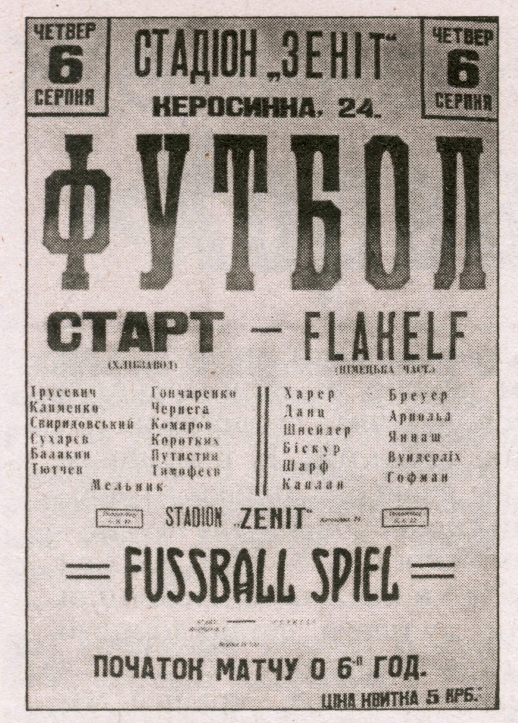 Match Start-Flakelf 6 august 1942. Kiev. Афиша матча «Старт» — «Флакелф», который состоялся 6 августа 1942 года в Киеве